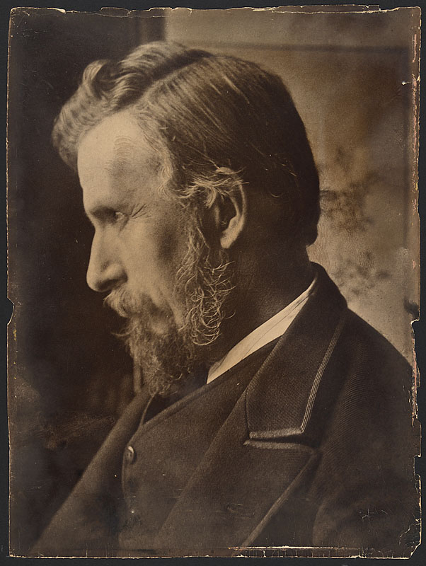 British jurist and constitutional theorist Albert Venn Dicey (4 February 1835 – 7 April 1922).